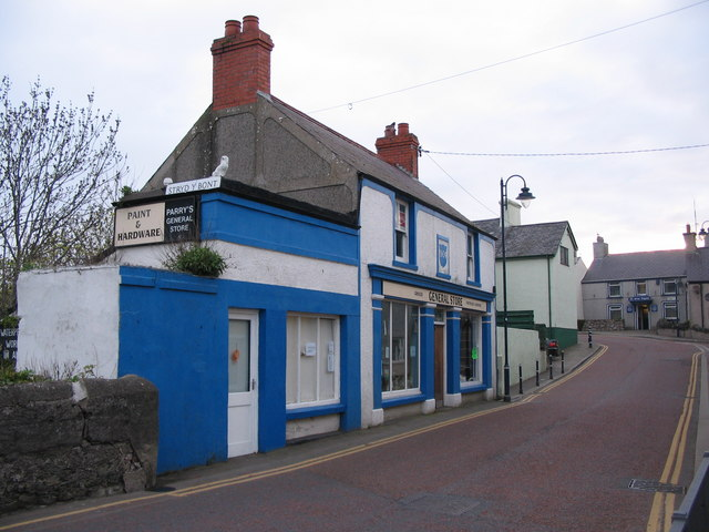 Stryd y Bont A view looking to the west along Stryd y Bont (Bridge Street) from the bridge over the Afon Wygyr. The Olde Vigour public house is at the bend at the top of the hill.